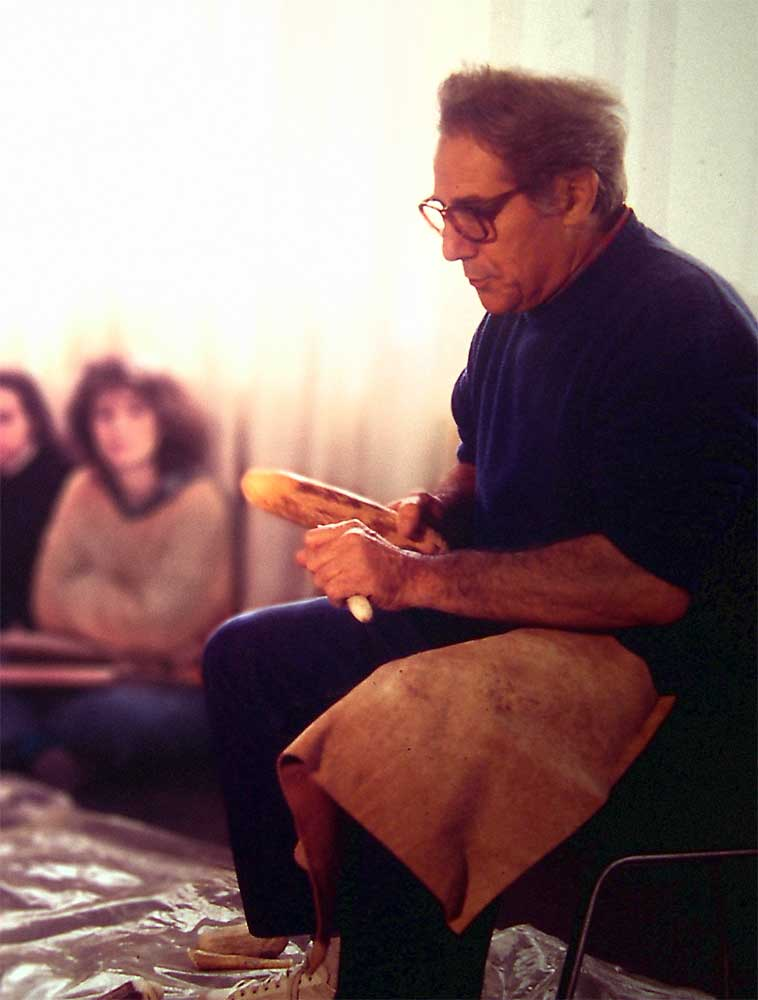 The french prehistorian, Jacques Tixier, teach his pupils how to use a punch in antler for indirect percussion